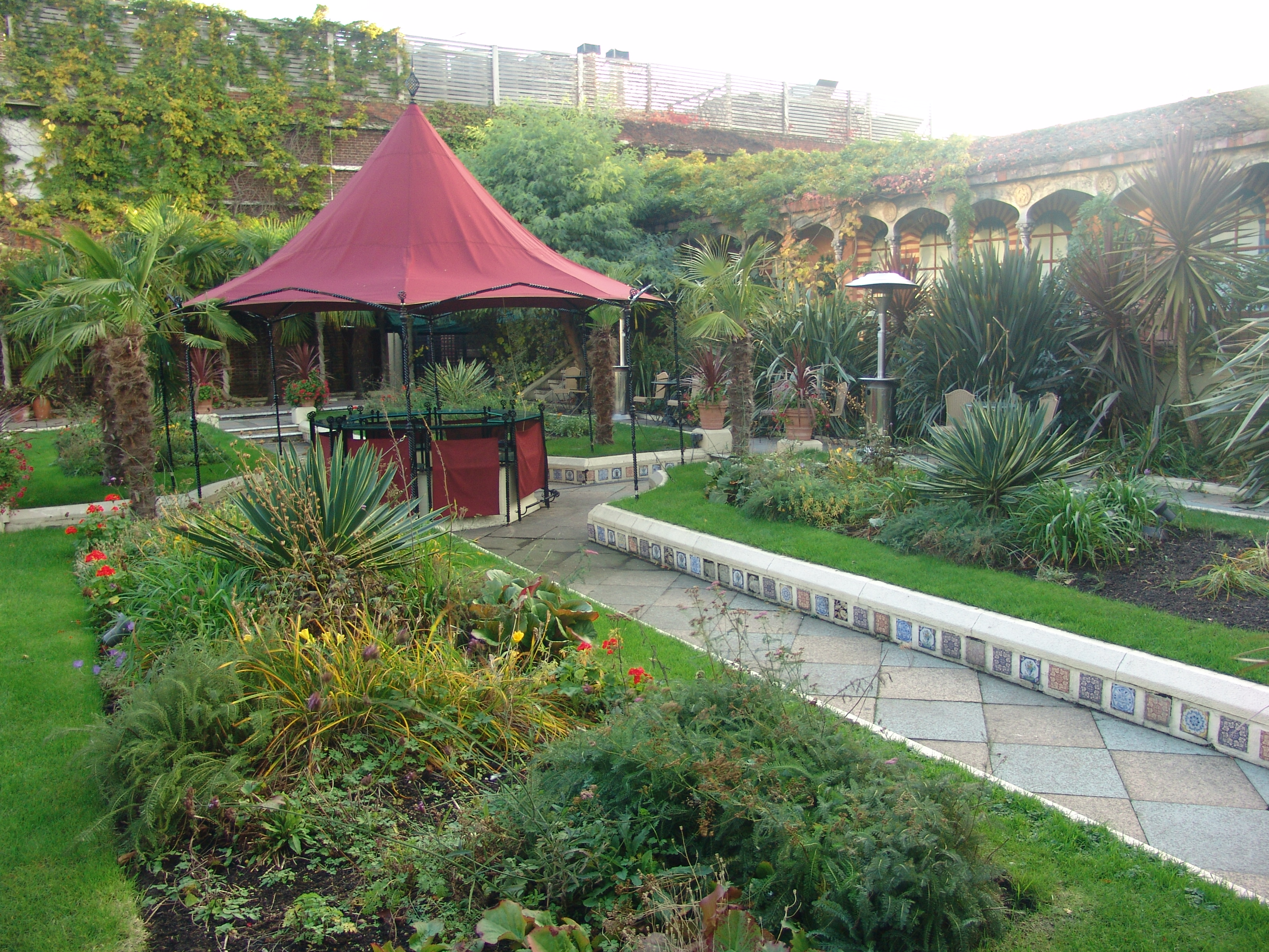 Photograph showing a tent in the Kensington Roof Gardens